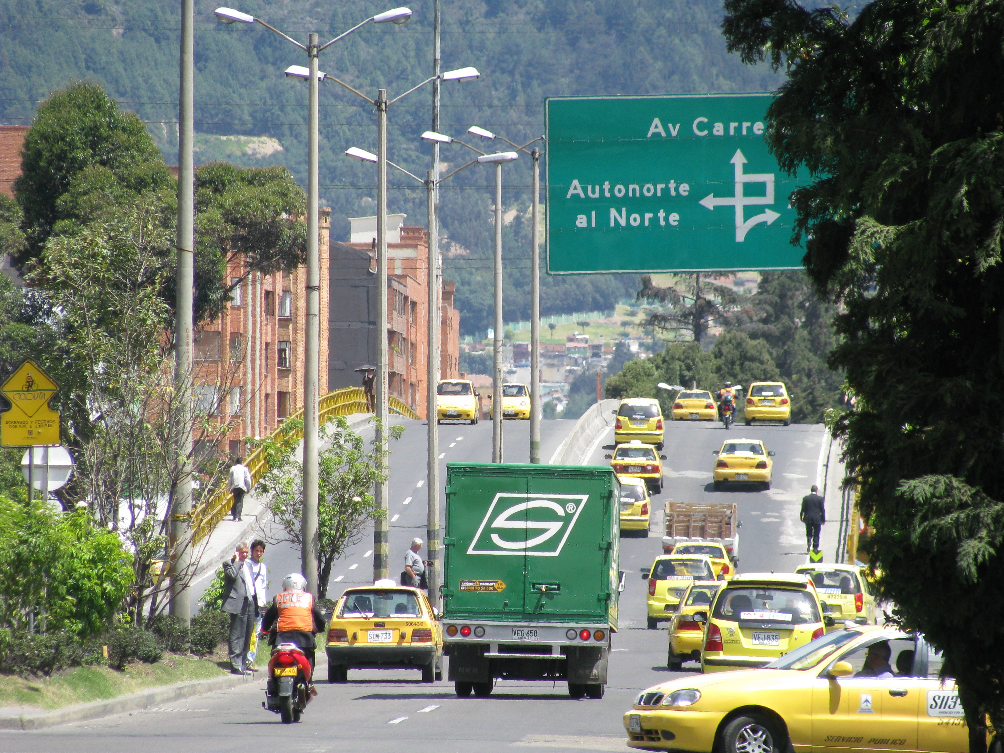 Day without cars in Bogotá.